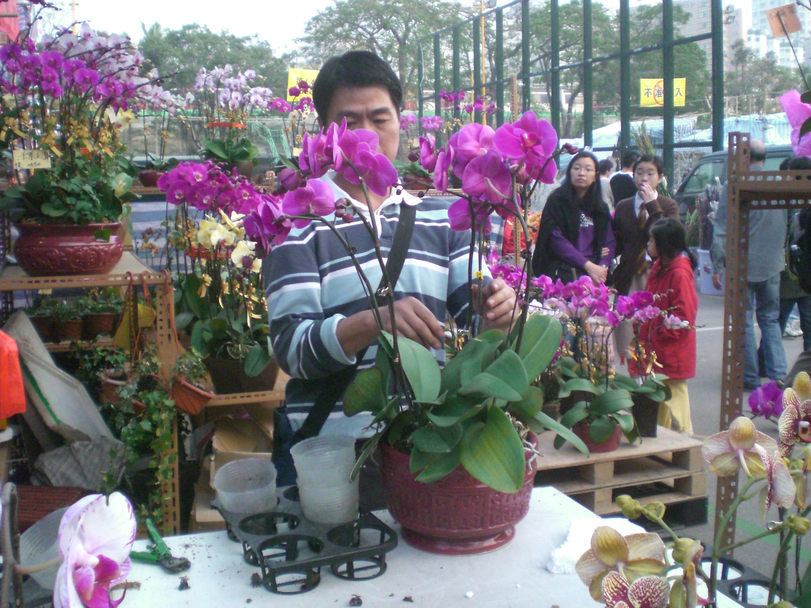 又一村 花市